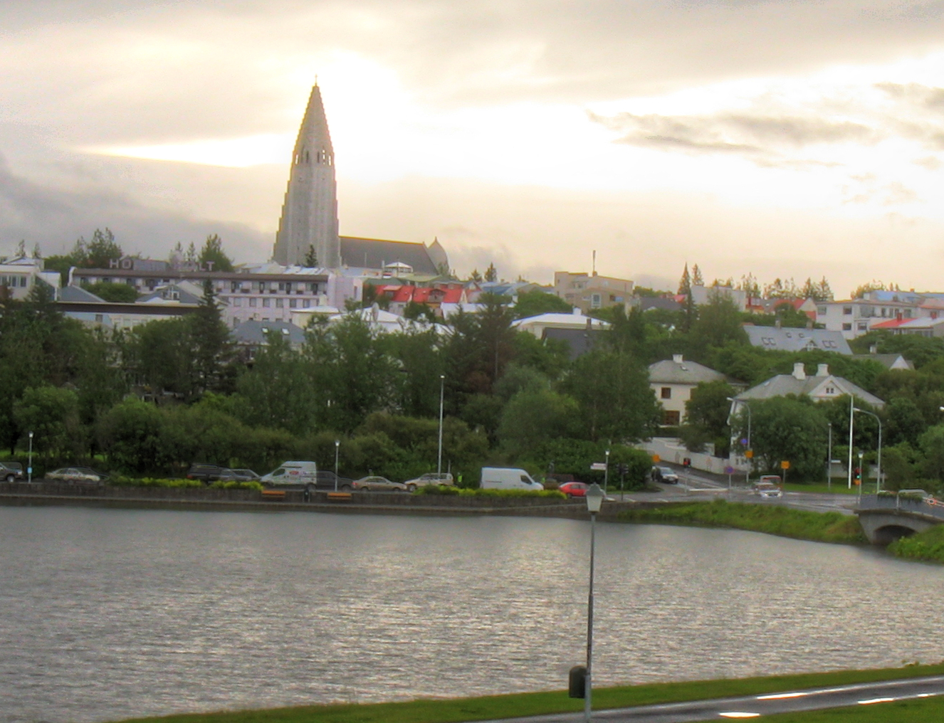 View of Hallgrímskirkja across Tjörnin in Rekjavik, Iceland (HDR)